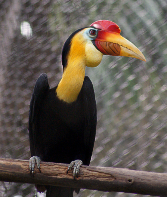 Wrinkled hornbill at Zoo Negara, Malaysia.